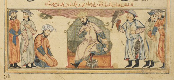 miniature from the 'Jami' al-Tawarikh' of Rashid al-Din